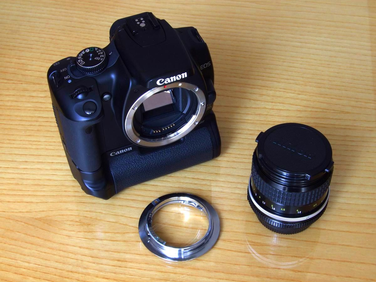 Canon EOS 400D body with a 85 f/2.0 Nikon AI lens and Canon-Nikon electronic adapter ring.